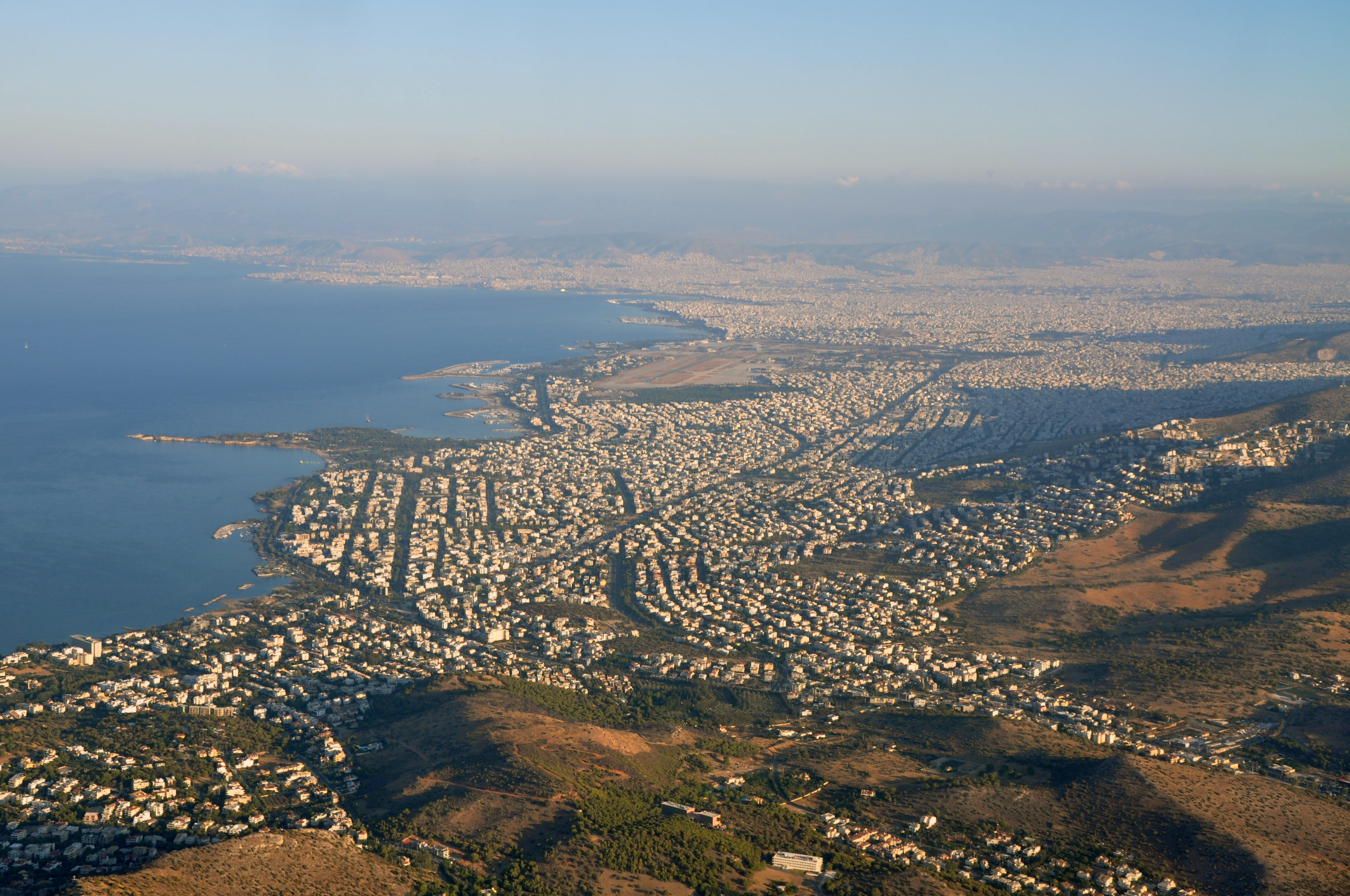 Athens from the airplane